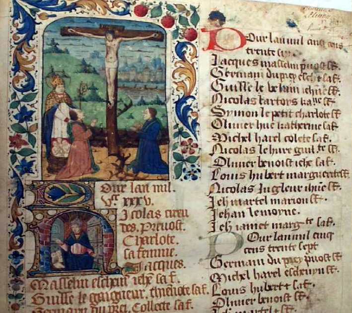 A page of the register of the "Brotherhood of charity" of the church Sainte-Croix in Bernay (Haute-Normandie, France).